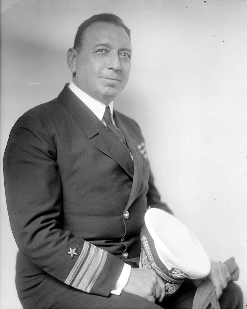 Captain, later Admiral, Arthur Lee Willard as he appeared while commander of the battleship USS New Mexico (1919-1921). This is an official work of the U.S. Navy now maintained by the Library of Congress.